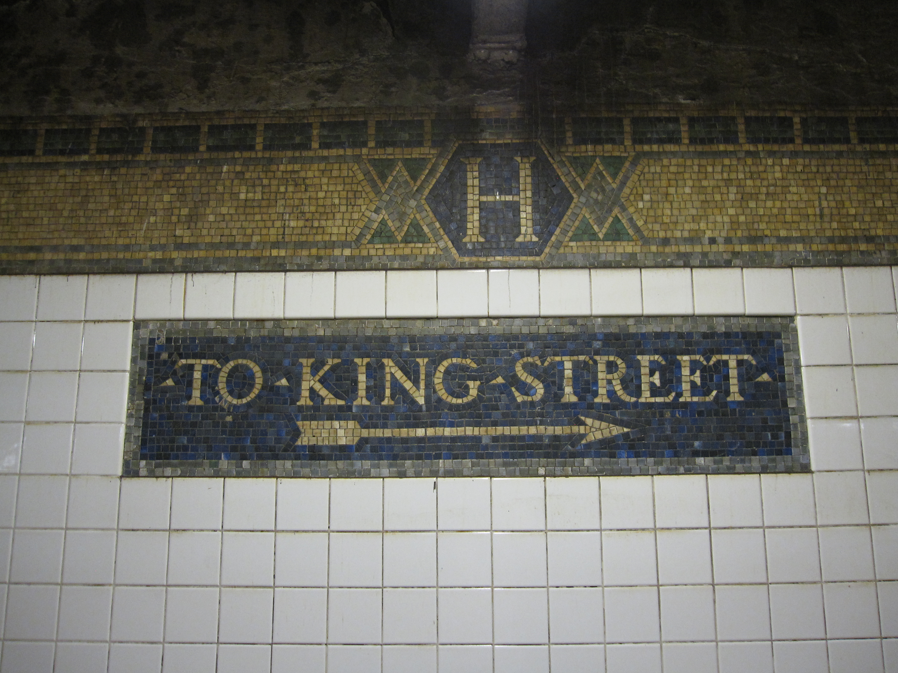 Houston Street (IRT Broadway – Seventh Avenue Line)